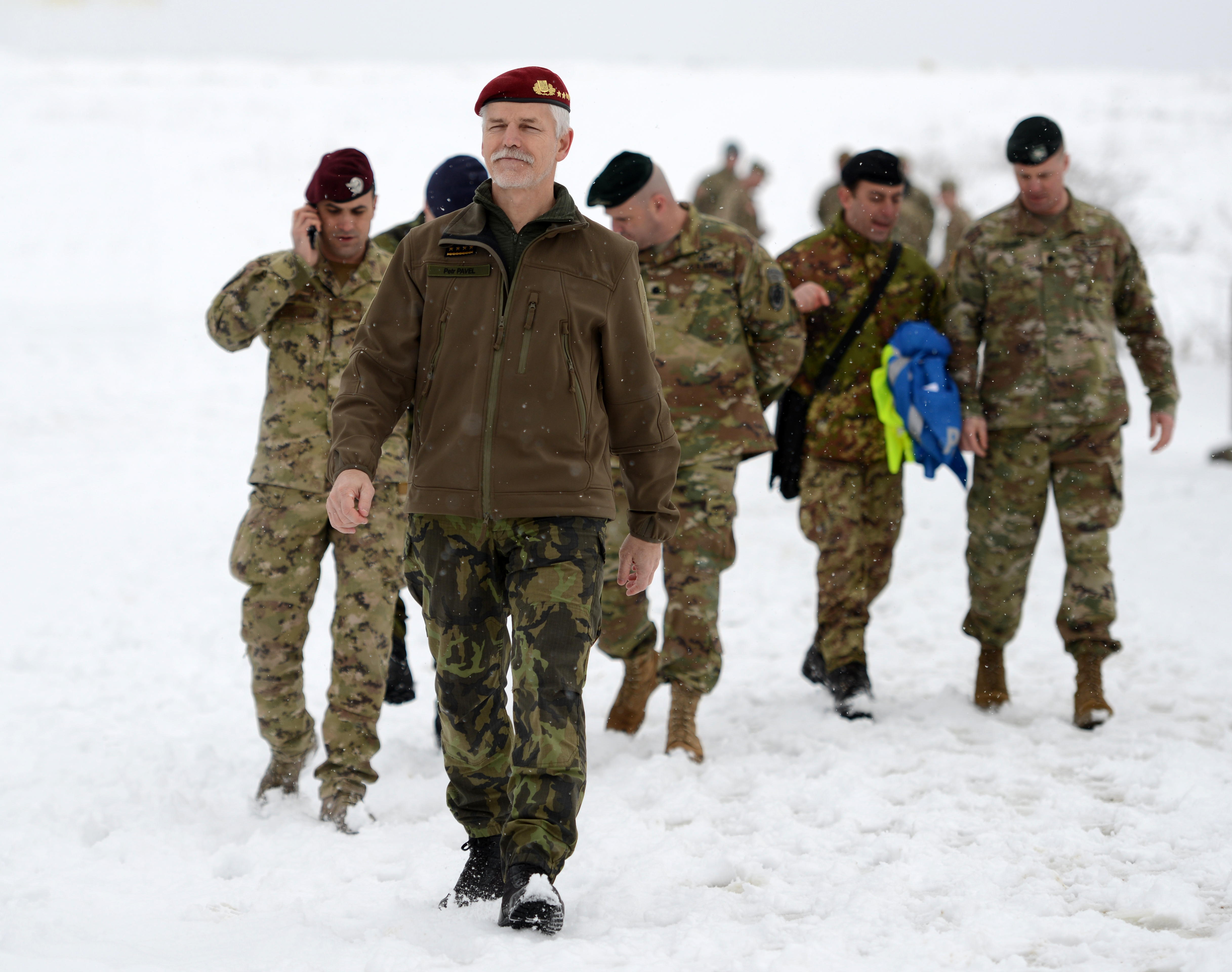 Czech Republic Army Gen. Petr Pavel, chairman of the NATO Military Committee is hosted by the staff of the International Special Training Centre for a tour of the multinational training facility located on Staufer Kaserne, Pfullendorf, Germany, Feb. 25, 2016. (U.S. Army photo by Visual Information Specialist Jason Johnston/Released)